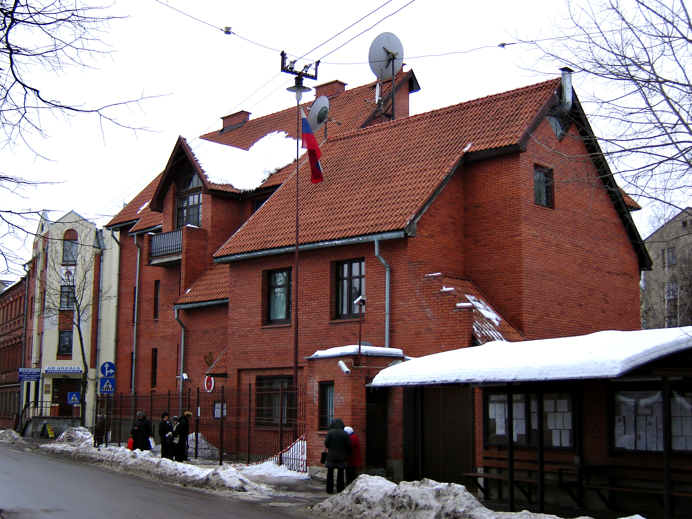 Consulate-General of Russia in Daugavpils